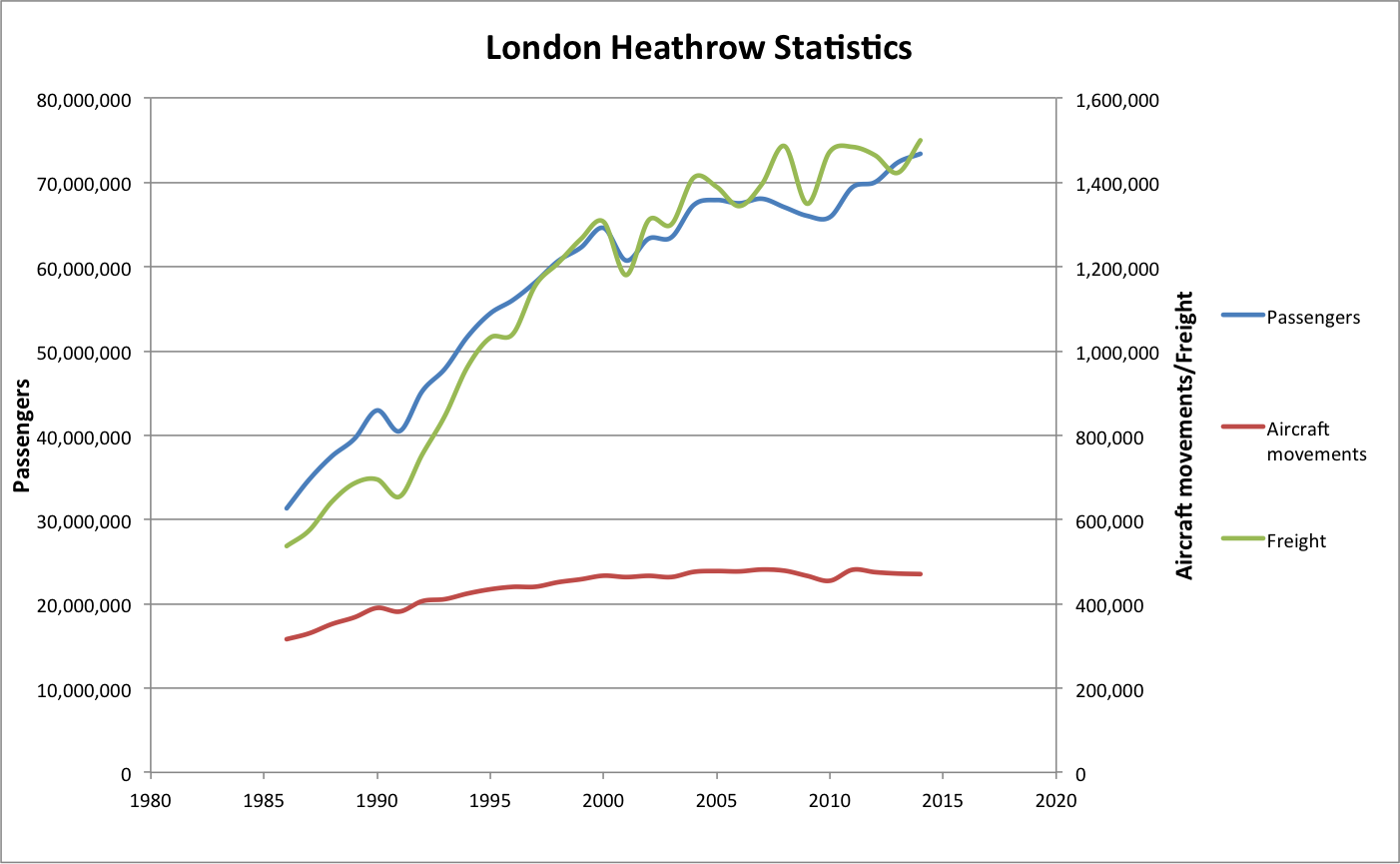 Development of London Heathrow Airport between since 1986.